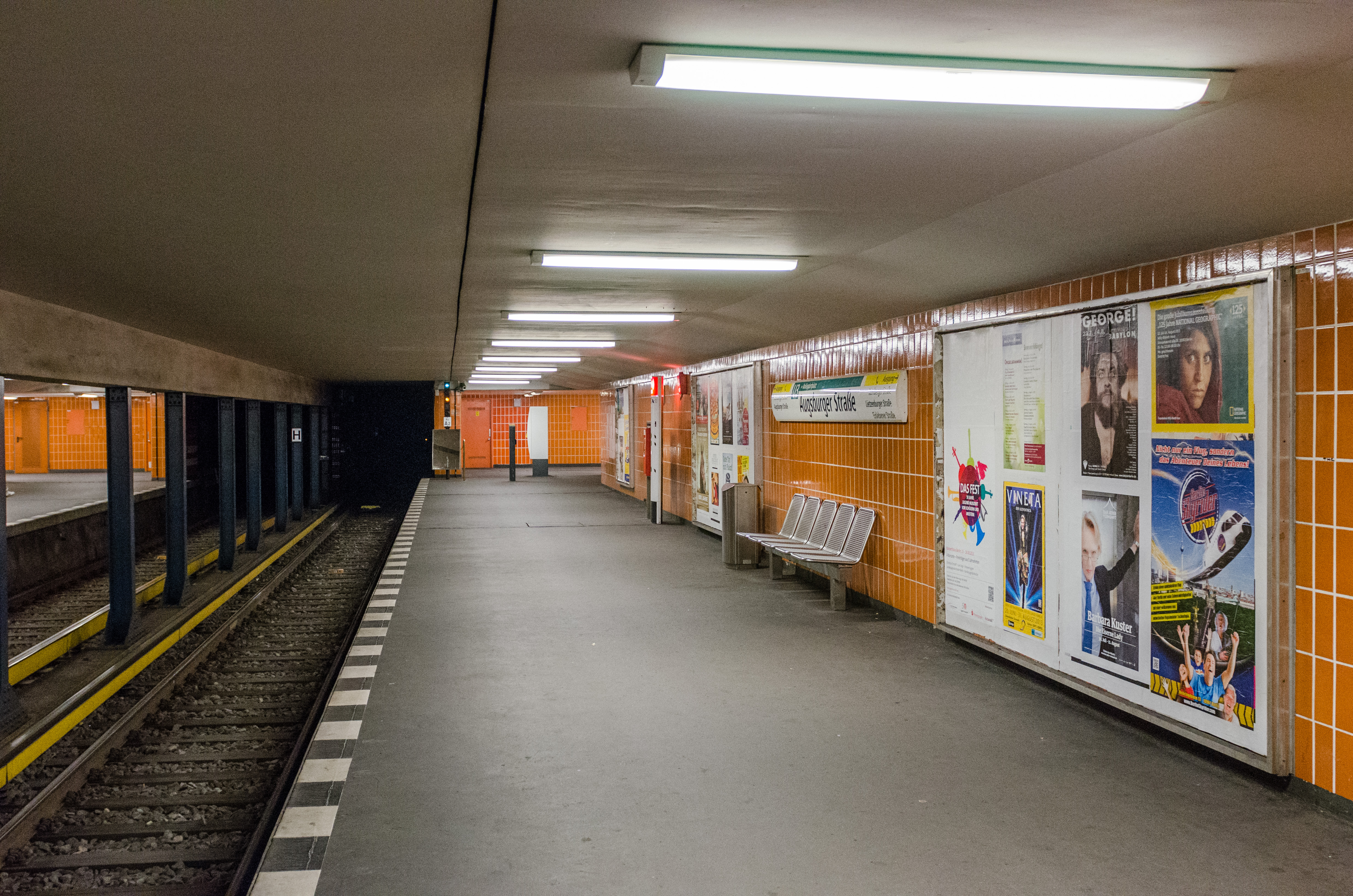 The Berlin subway station Augsburger Straße in Berlin-Charlottenburg